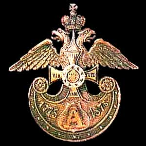 Badge of Atamansky Guard Regiment